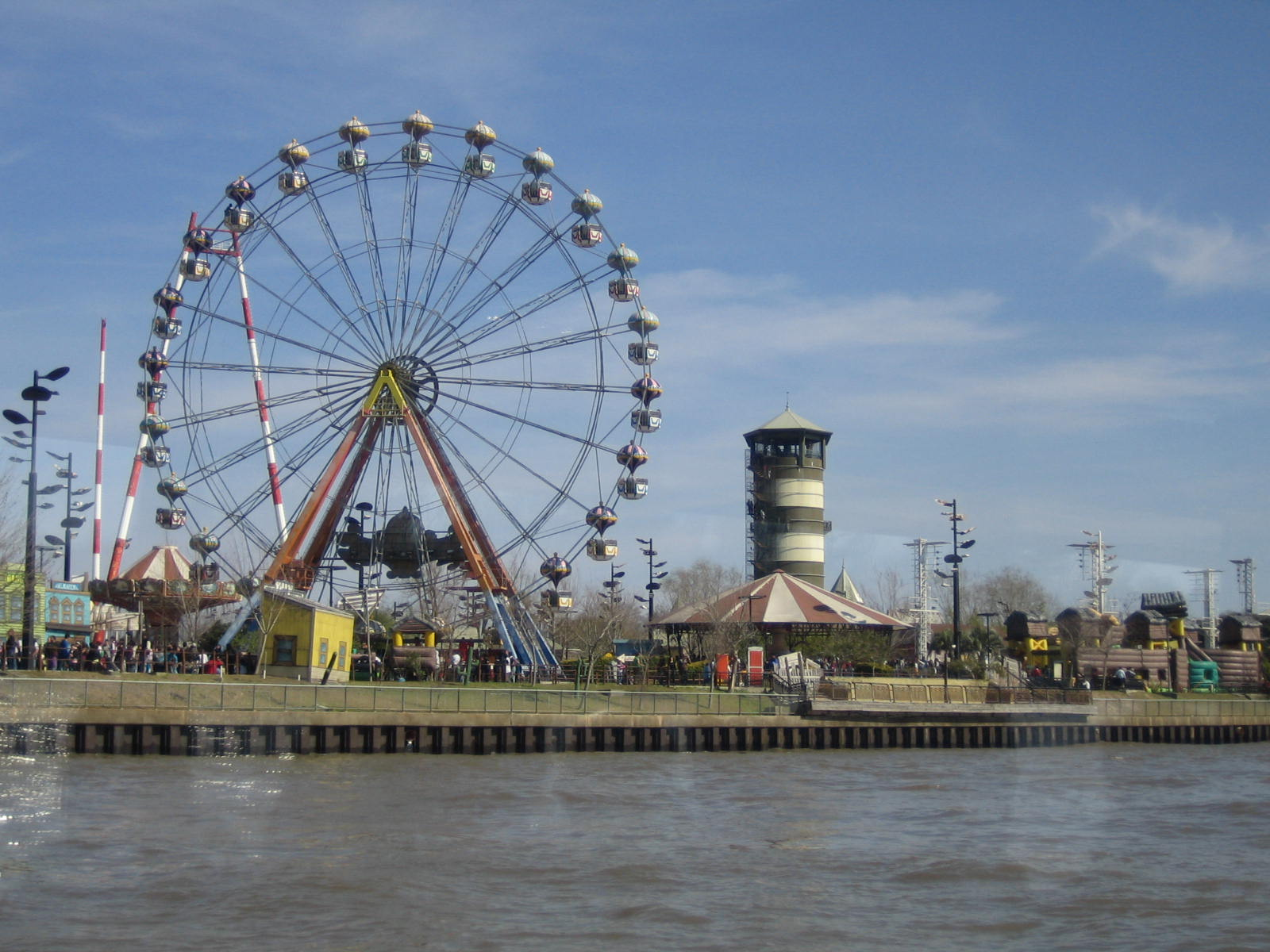 Parque de la Costa - Buenos Aires - Argentina